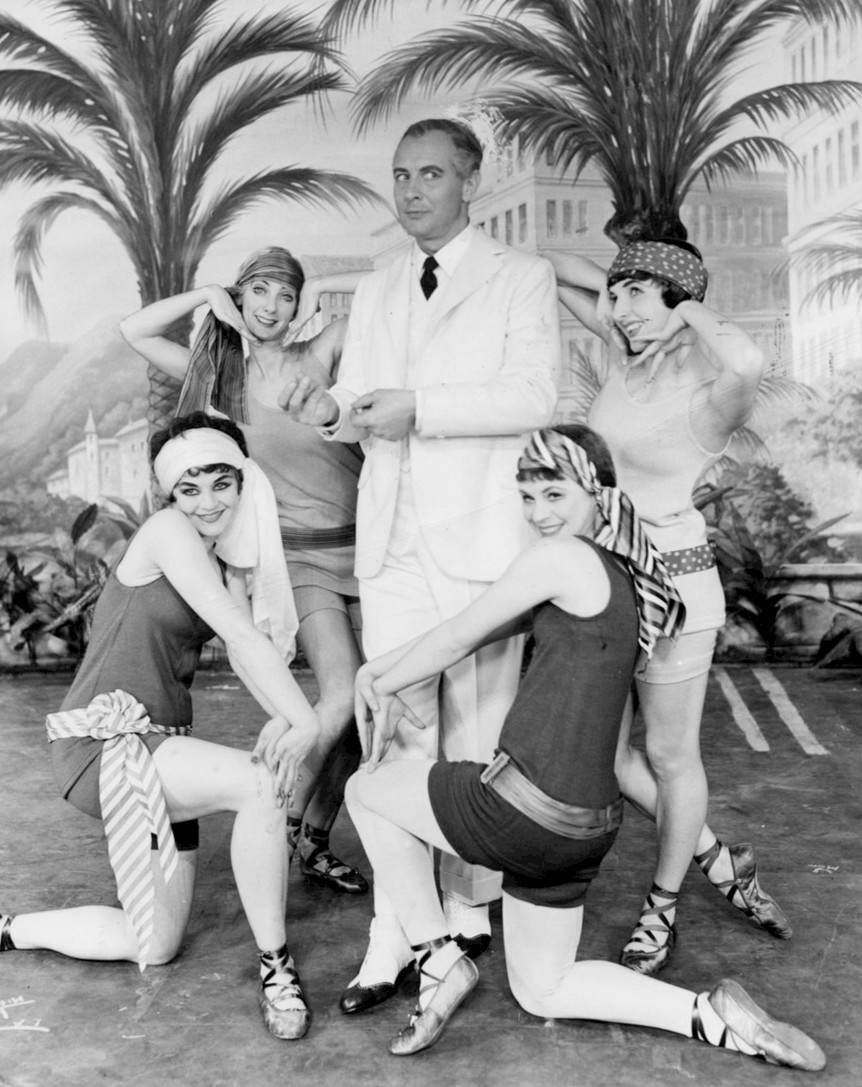 Photo of Eric Berry as Percival Browne in the Broadway production of The Boy Friend. Clockwise from left: Stella Claire, Lyn Connorty, Berry, Dilys Lay, Millicent Martin. There are no copyright marks on the item, which can be seen at the link.